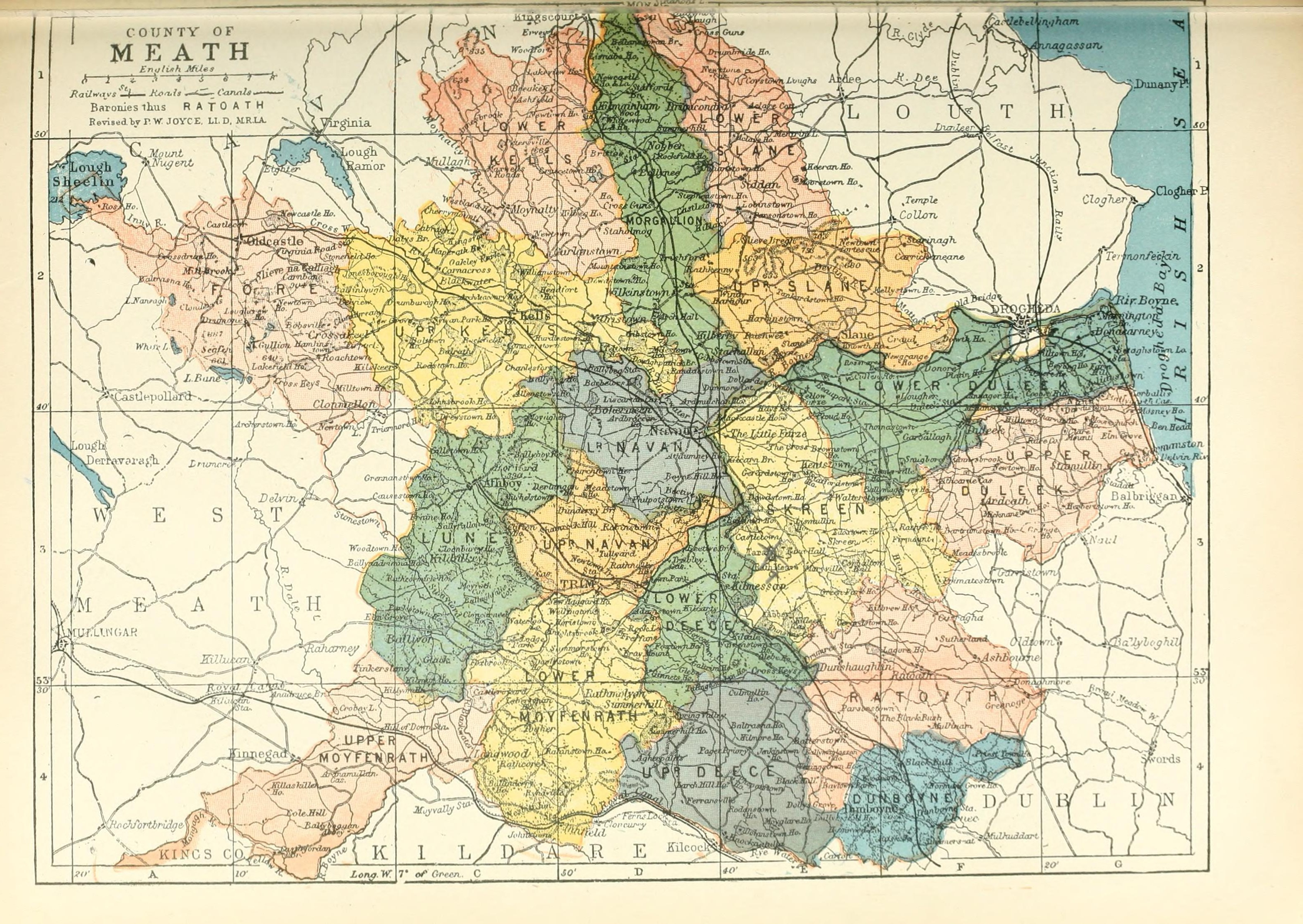 Map of the baronies of County Meath in Ireland; taken from Atlas and cyclopedia of Ireland, p.220